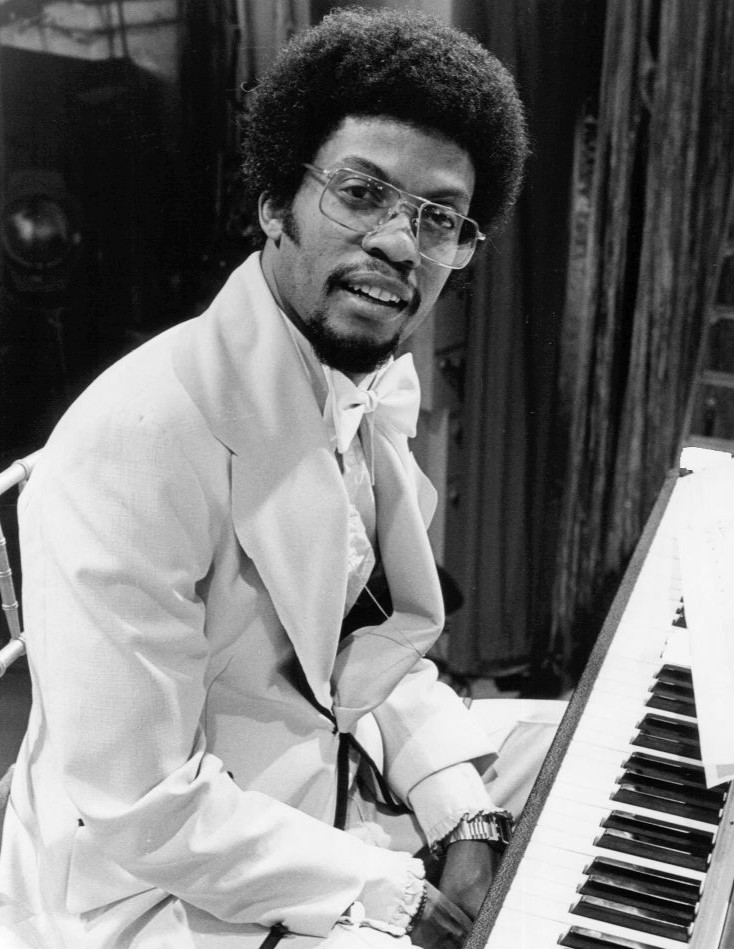 Photo of Herbie Hancock from an appearance on a television special on jazz.